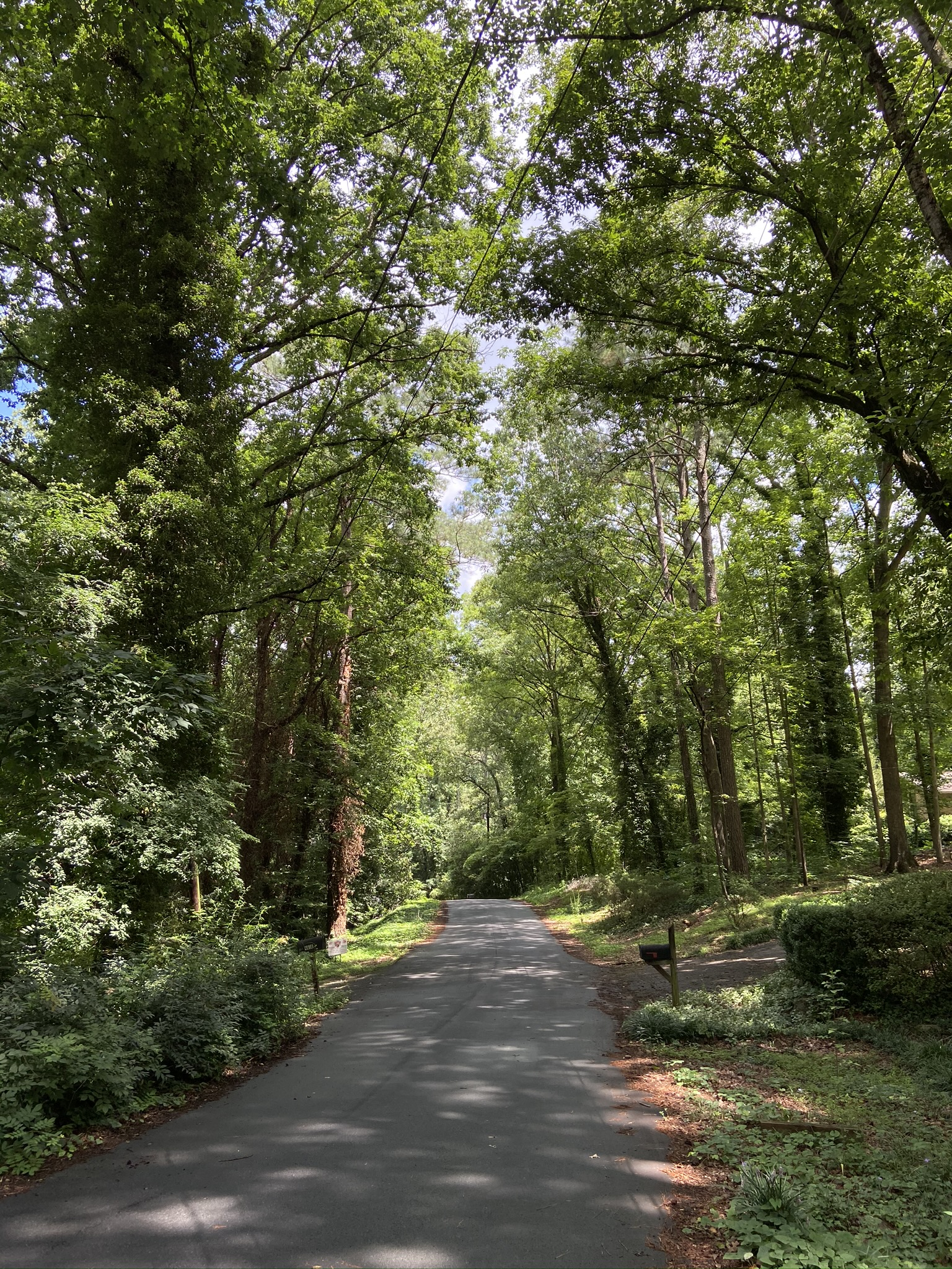 A forested Mableton residential street; narrow roads and gentle slopes are characteristic of Metro Atlanta's piedmont geography.